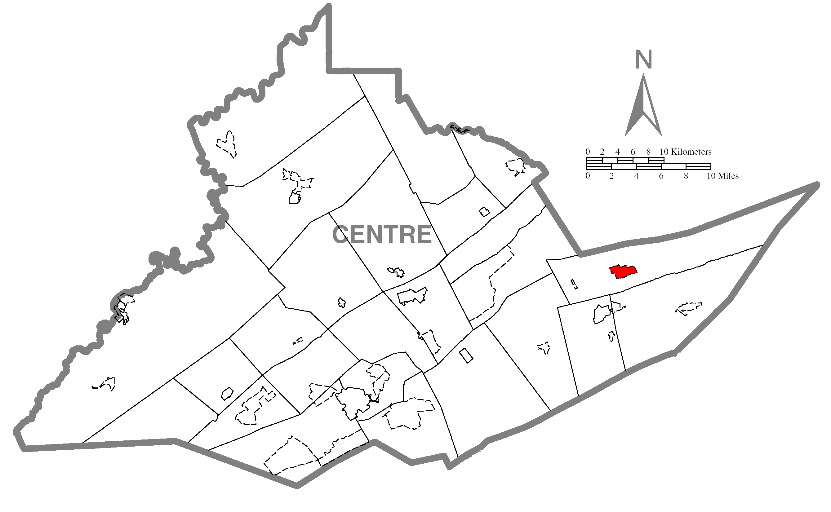 A map of Centre County showing Rebersburg, Pennsylvania (alternate) highlighted on the map.